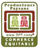 Logo of the SPP Global's label